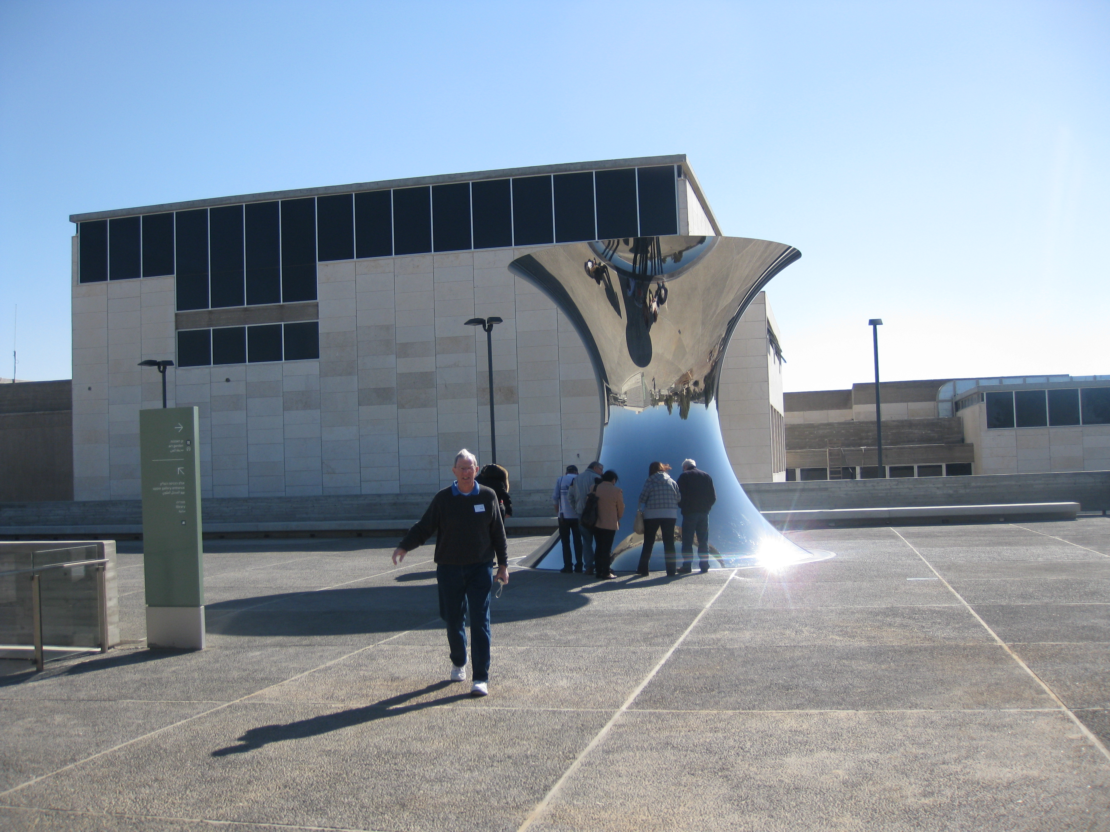 Turning the World Upside Down by Anish Kapur, Israel museum, Jerusalem